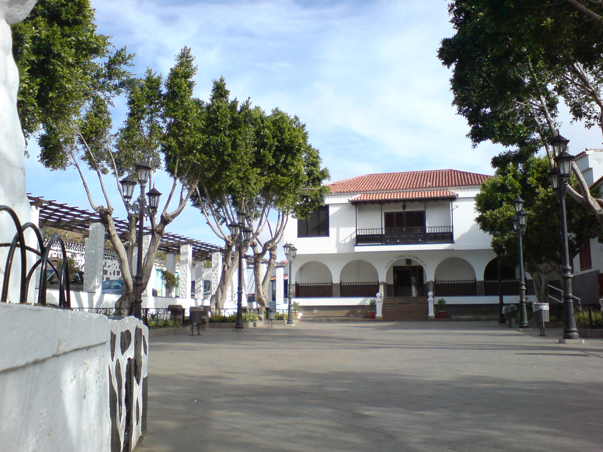 Santa Ana Avenue & Town Hall of Vega de San Mateo, Gran Canaria (Canary Islands, Spain).